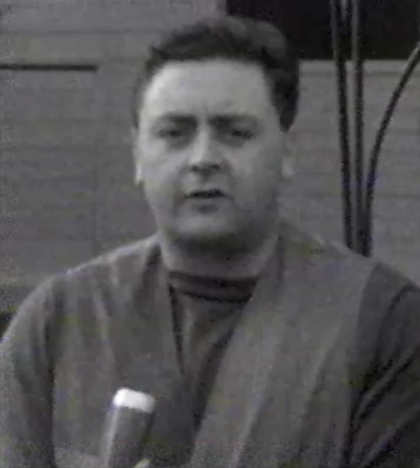 Luigi Rossi in Milan in 1959.